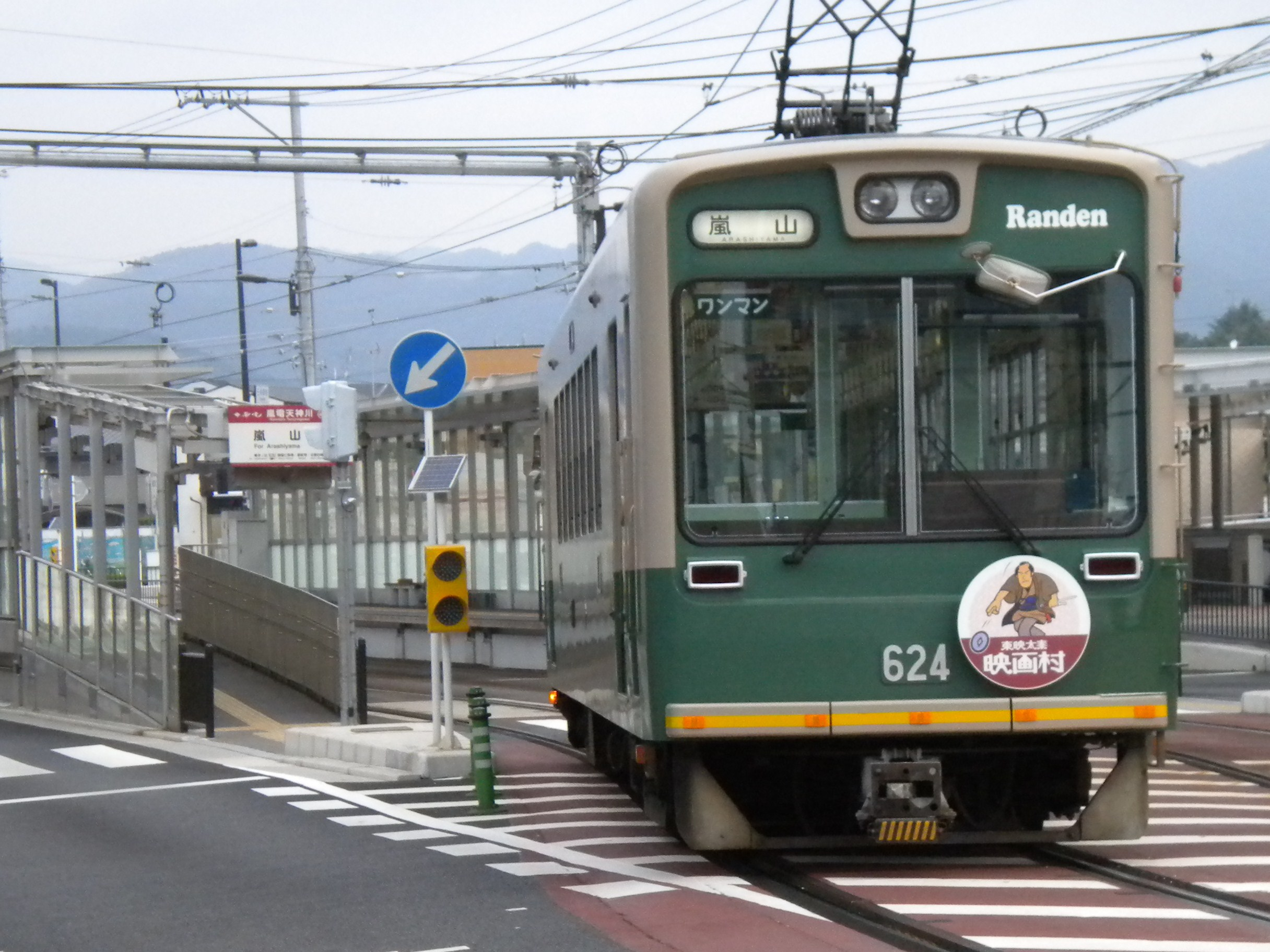 Keifuku Mobo 621